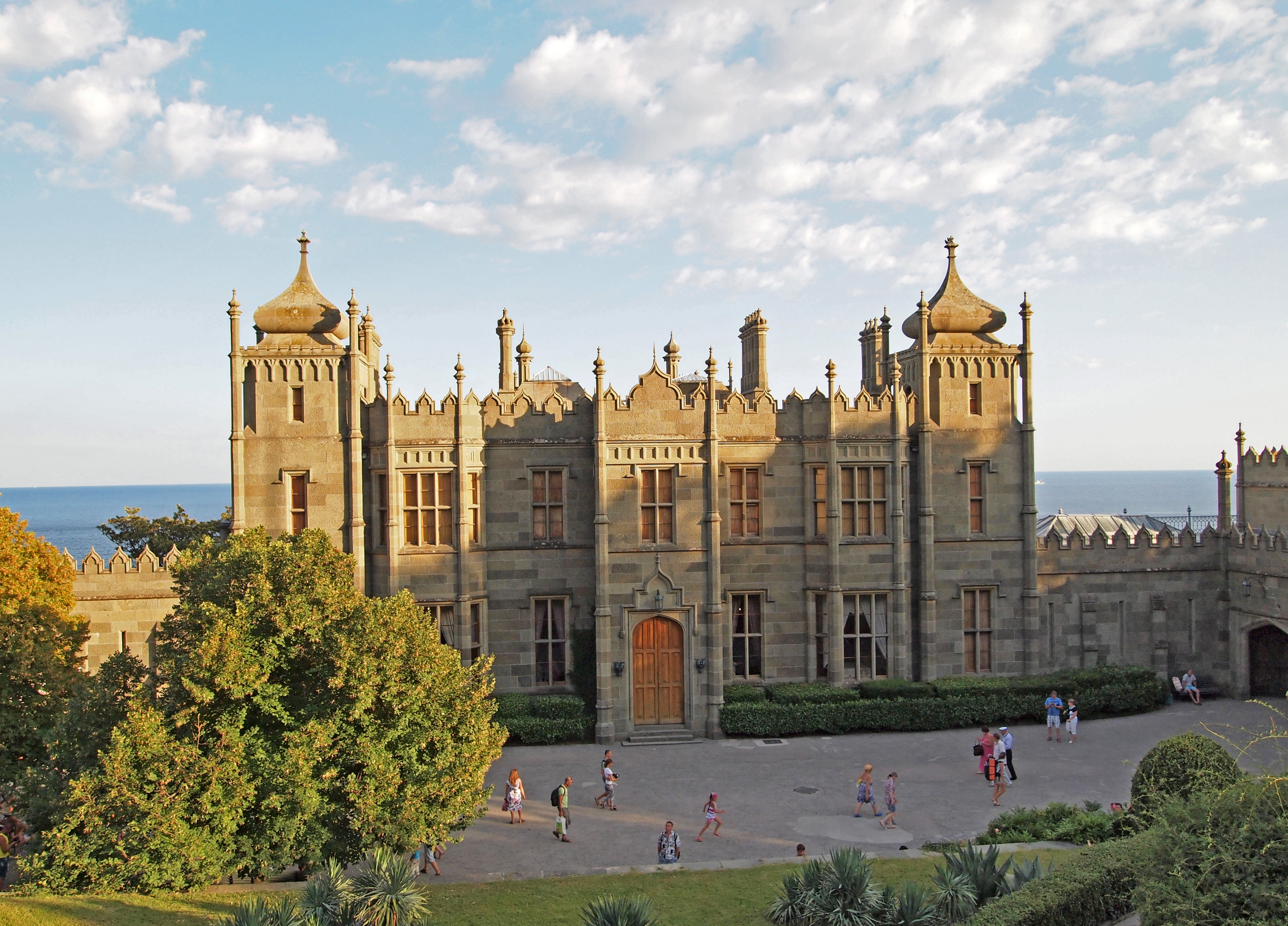 Alupka castle. View from the north. This photograph was taken with a Olympus E-PL1.